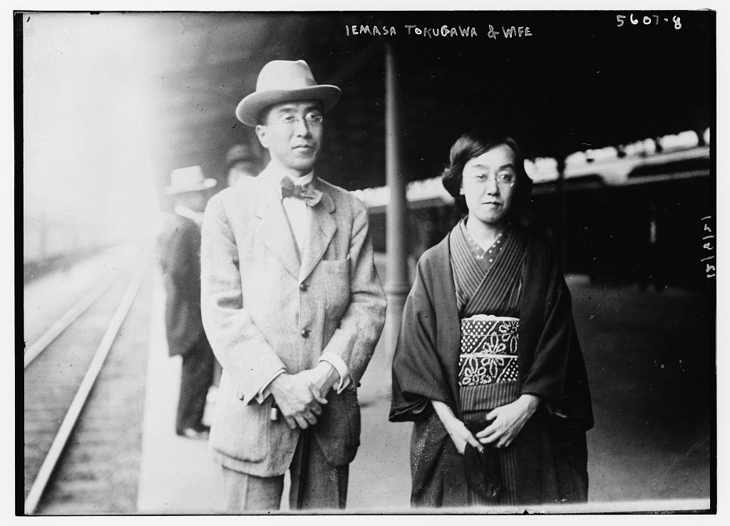 Japanese diplomat and politician, Prince Tokugawa Iemasa and his wife (1884-1973).